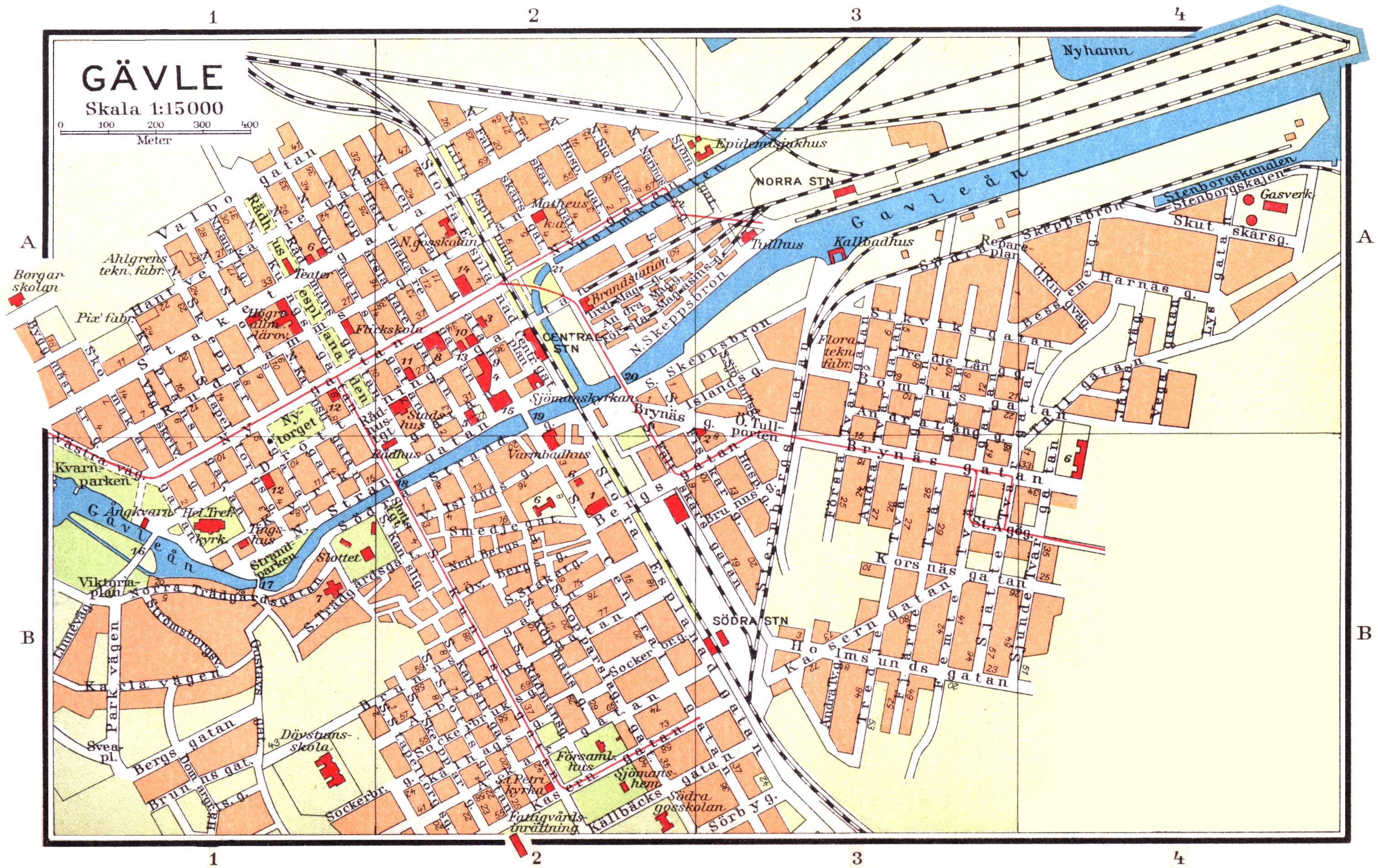 Map of Gävle, Sweden.